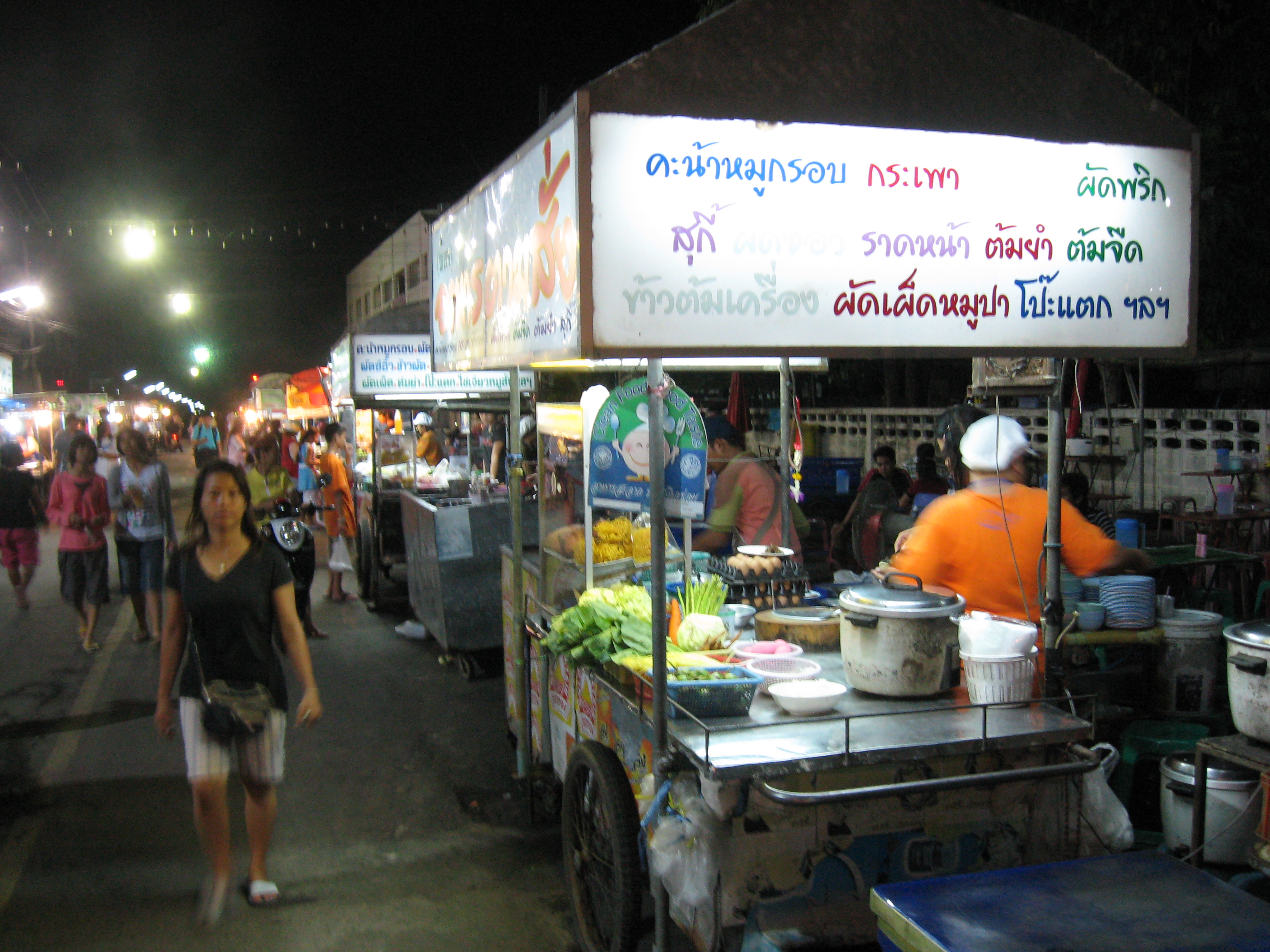 A food cart in the night market, Yasothon, Thailand.